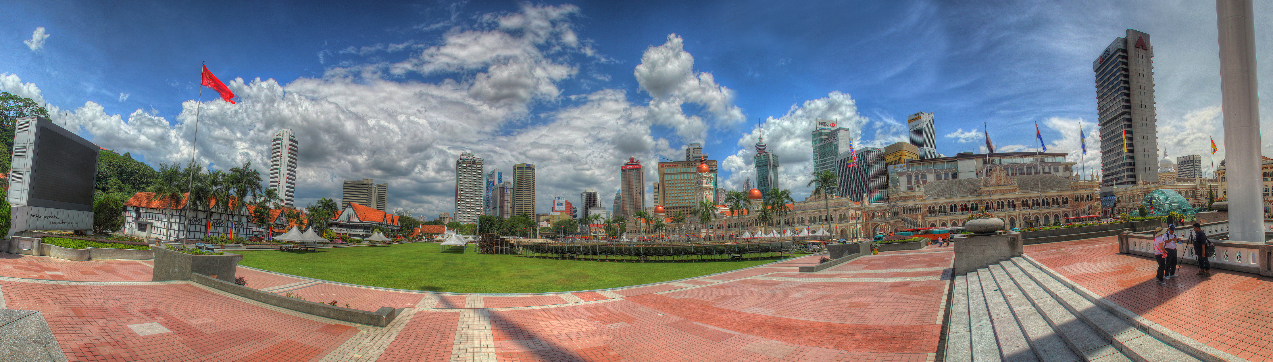 The history of Kuala Lumpur began in the middle of the 19th century within this area with the rise of the tin extraction industry. Kuala Lumpur was founded in 1857 at the confluence of the Gombak and Klang rivers. In Malay, the name literally means "muddy confluence". The settlement started when a member of the Selangor royal family, Raja Abdullah, opened up the Klang Valley for tin prospectors. 87 Chinese prospectors went up the river Klang and began prospecting in the Ampang area, which was then jungle. Despite 69 of them dying due to the pestilential conditions, a thriving tin mine was established. This naturally attracted merchants who traded basic provisions to the miners in return for some of the tin. The traders set up shop at the confluence of the Klang and Gombak rivers. Thus, a city was born. The independence from the British rule was also declared from here.